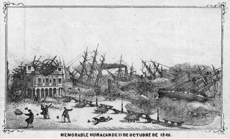 Damage wrought by the 1846 hurricane in Havana, Cuba.